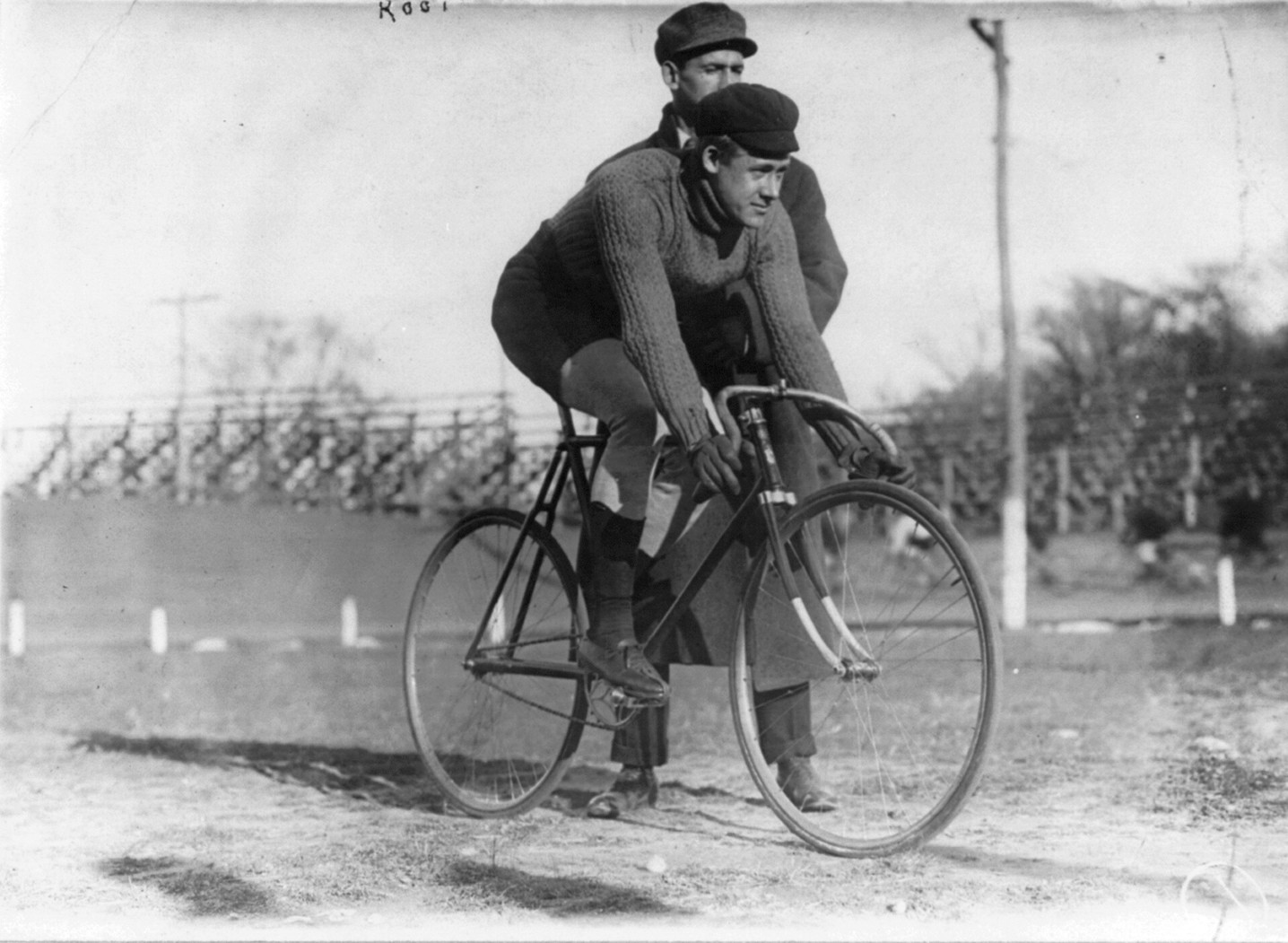 Eddy Root. Full lgth., seated on bicycle, facing right; on race track.